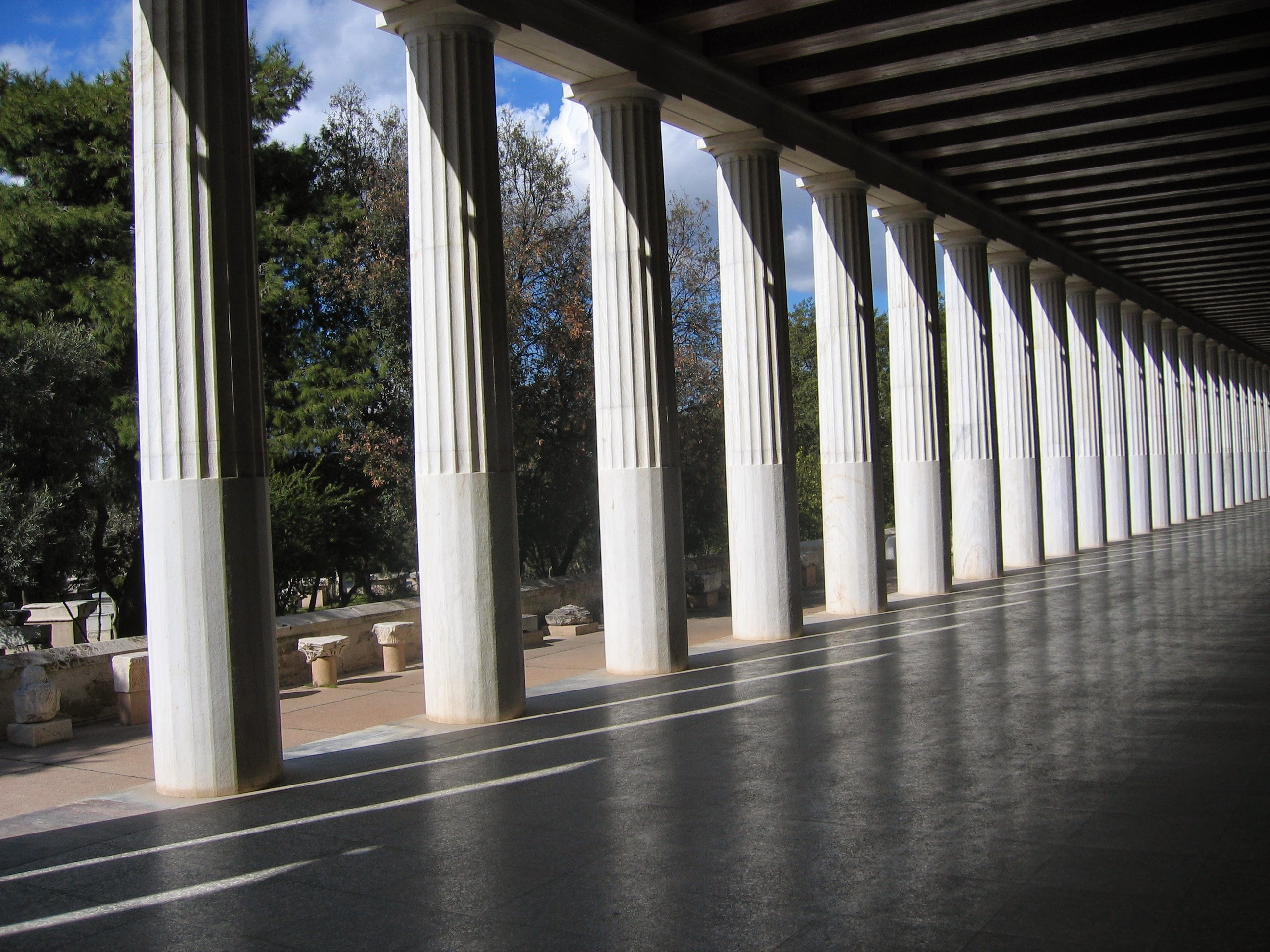 Athens, Greece